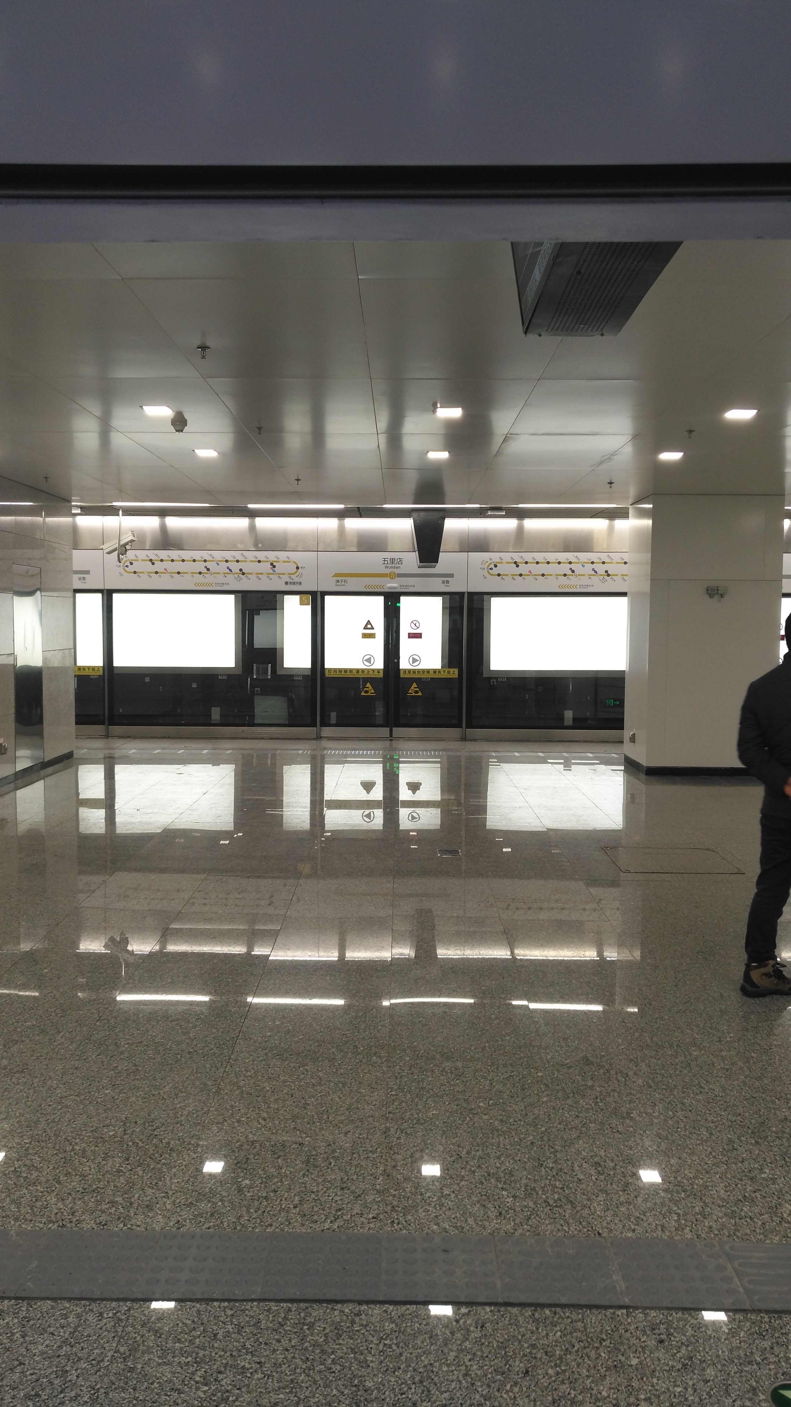 A metro station in Chongqing, China.